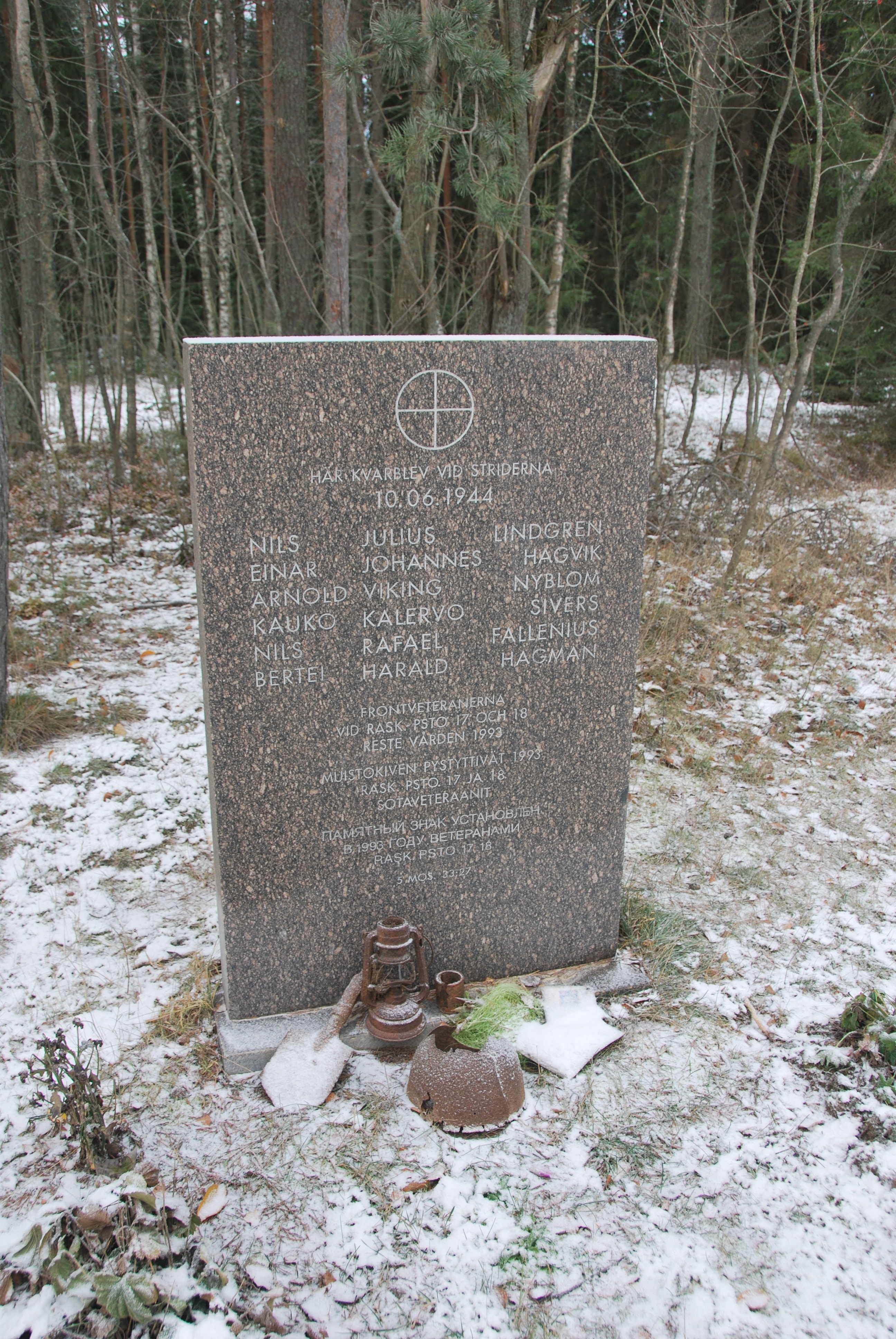 Memorial to Swedish and Finnish soldiers, who died in Kalelovo on 10th June 1944